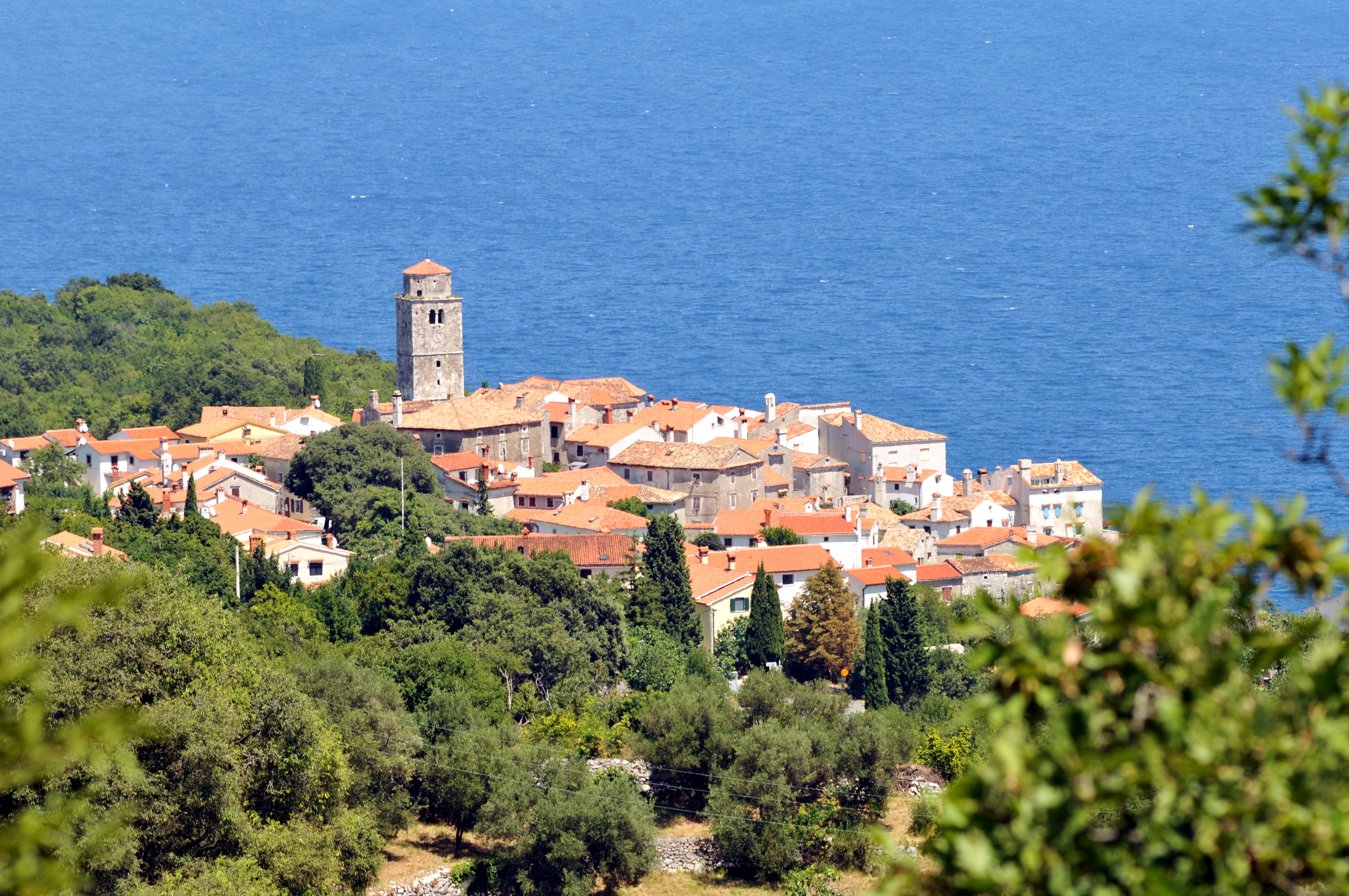 Croatia, Istria, Brseč 15 km south Lovran, 45°10`23,80``N 14°13`37,25``E